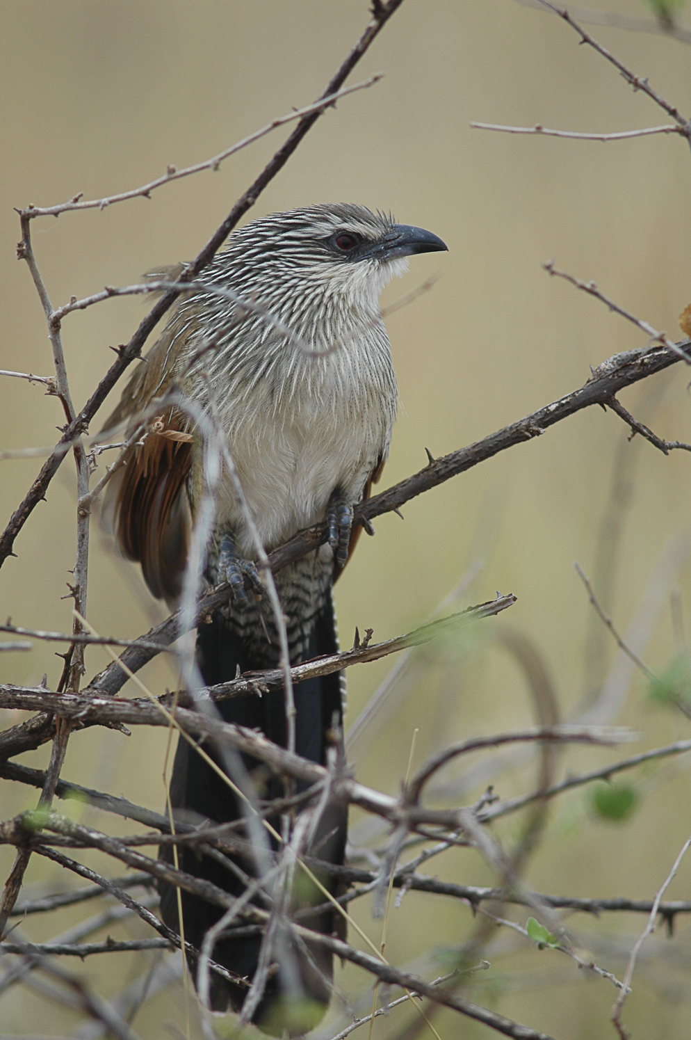 A White-browed Coucal in Meru National Park, Kenya.